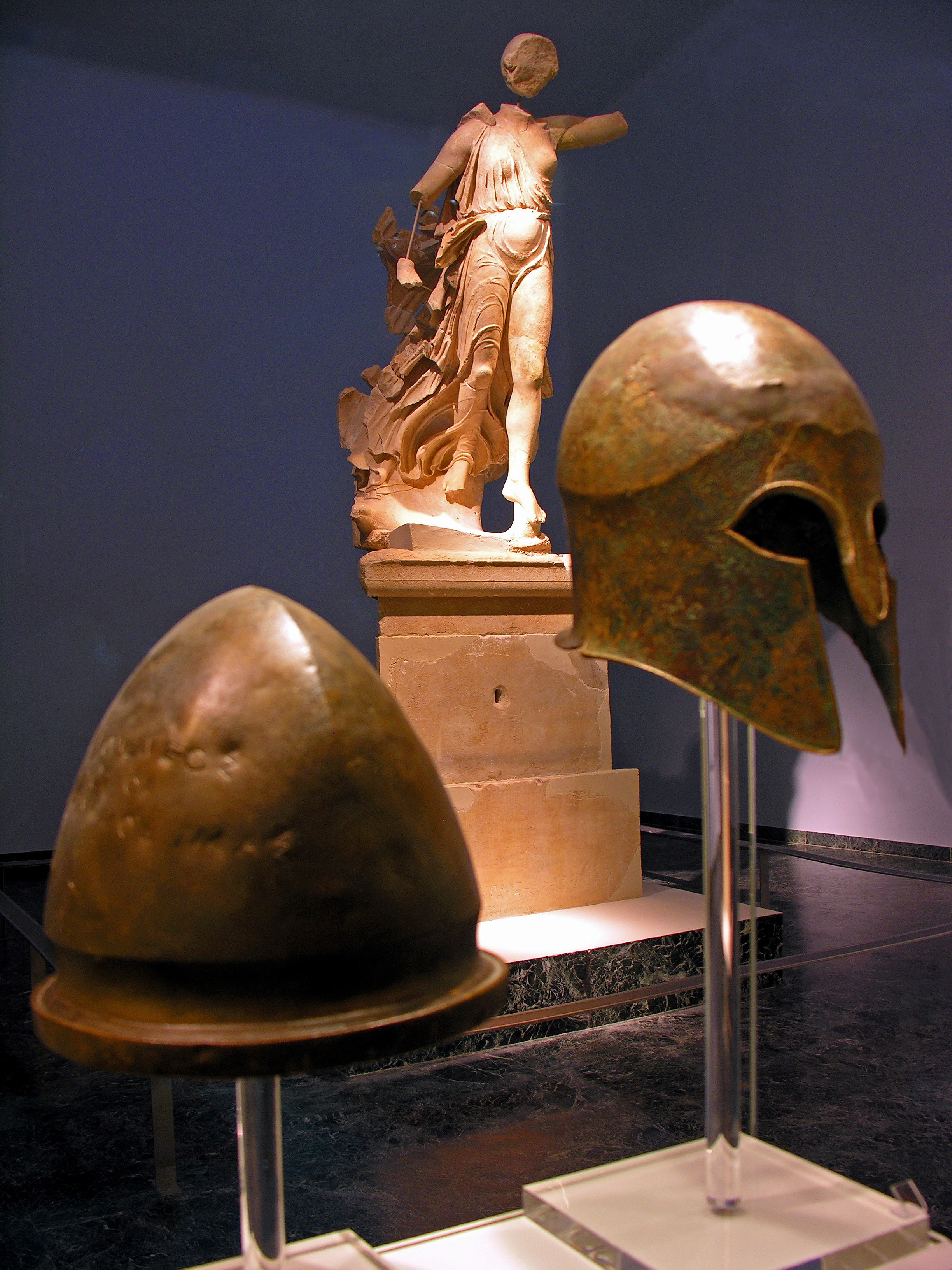 PLEASE, no multi invitations, glitters or self promotion in your comments. My photos are FREE for anyone to use, just give me credit and it would be nice if you let me know. Thanks